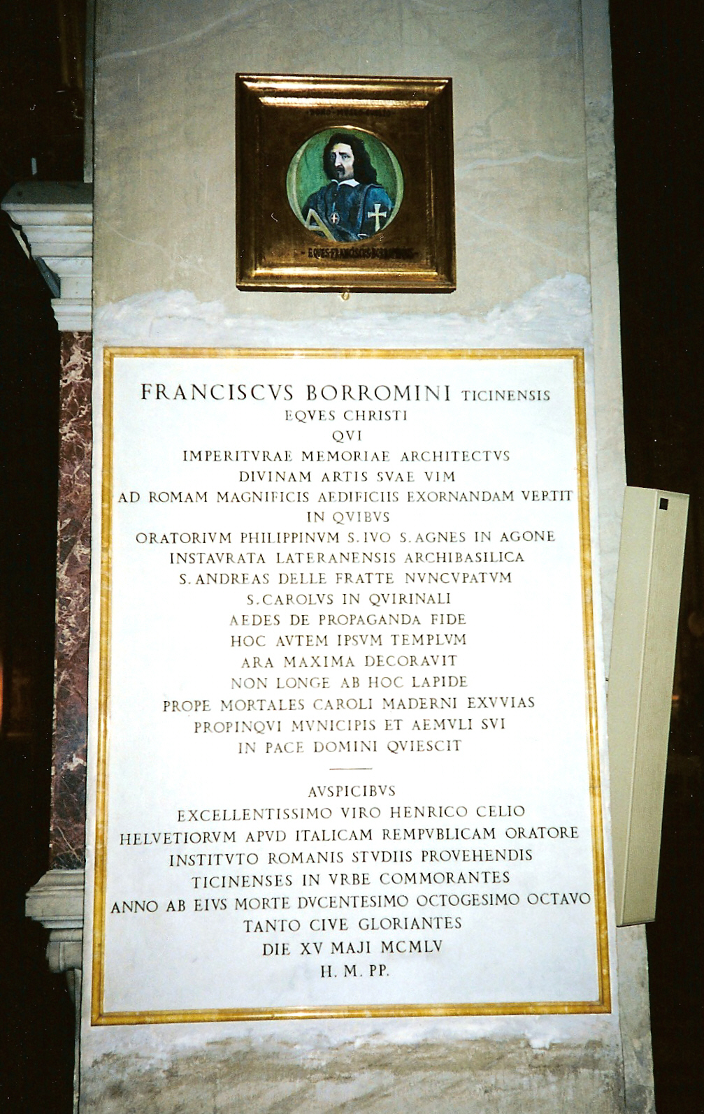 Memorial tablet for Francesco BorrominiChiesa di San Giovanni dei Fiorentini, RomaInstalled May 15, 1955